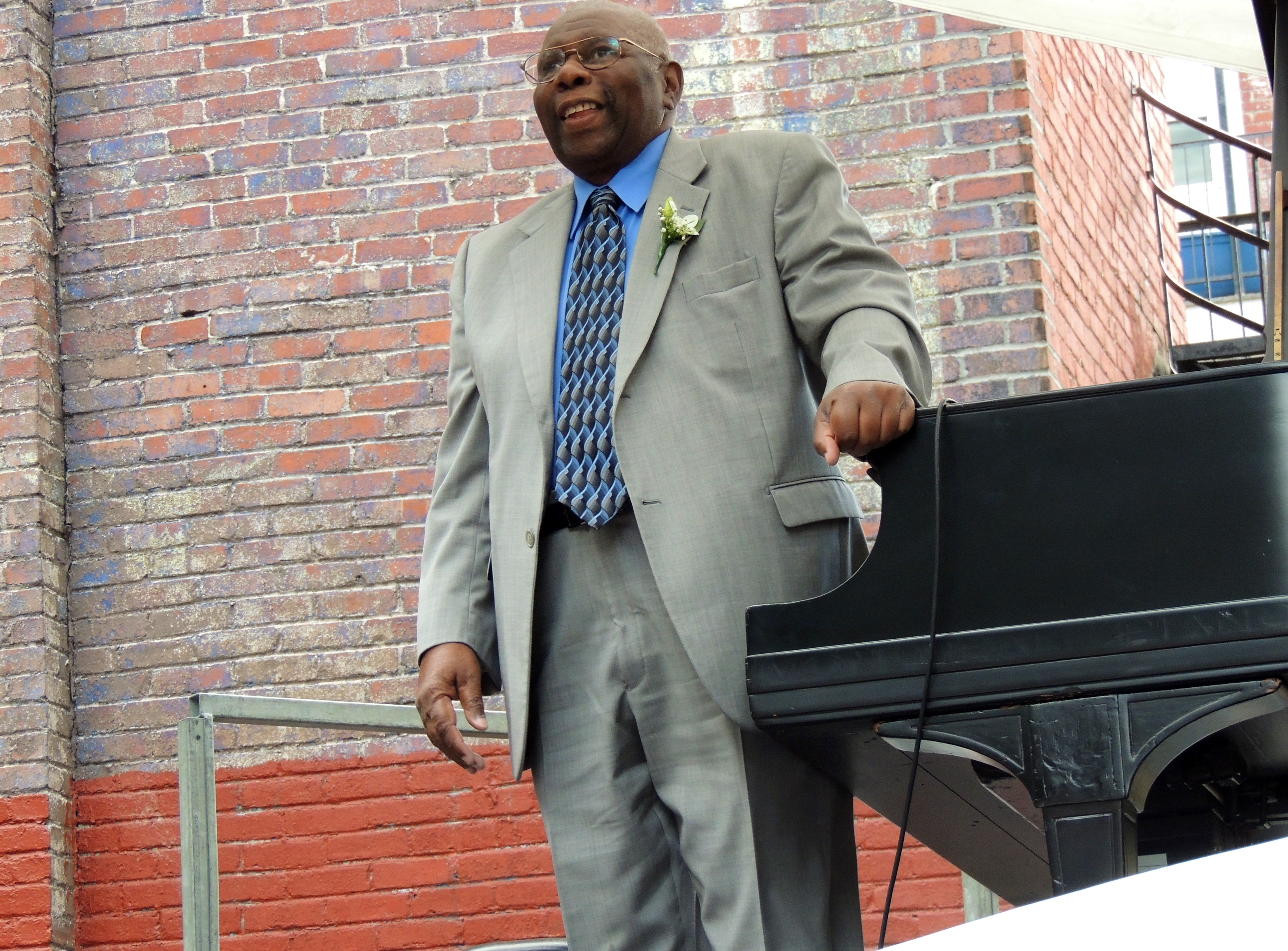 Canadian jazz pianist Oliver Jones at an outdoor concert he performed in Little Burgundy, the Montreal neighborhood he grew up in.